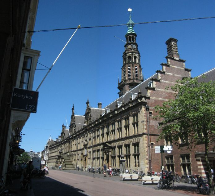 Imagen del Ayuntamiento (Stadhuis) de la ciudad de Leiden (Países Bajos), tomada desde la Breestraat. Foto tomada por Enrique Boira Freire (usuario Enboifre), el 16 de julio del 2006. Image of the City Hall (Stadhuis) of the city of Leiden (the Netherlands), taken from the Breestraat. Picture taken by Enrique Boira Freire (user Enboifre), on the 16th julio 2006.